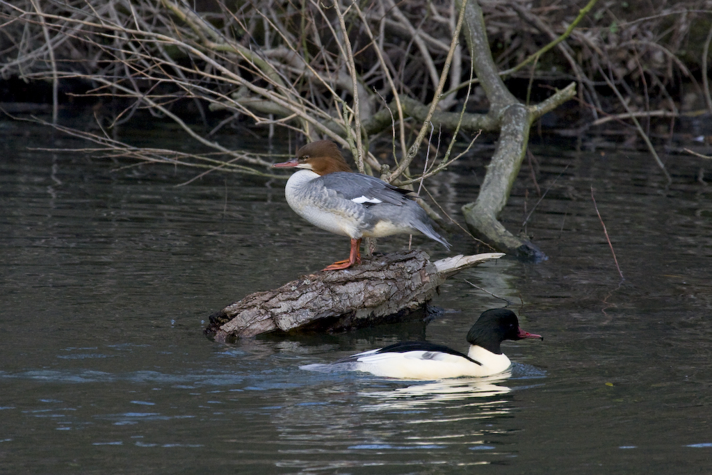 Goosander, female on top, male below, Mülheim an der Ruhr, Germany